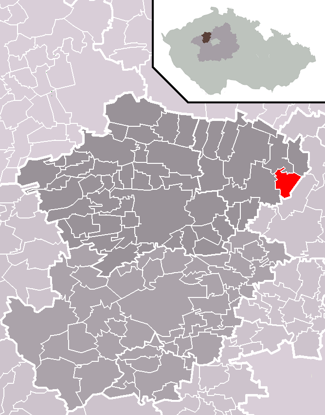 Location of Uhy municipality within Kladno District and administrative area of Slaný as a Municipality with Extended Competence.